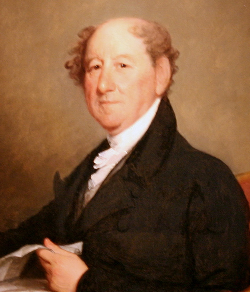 Portrait of Rufus King